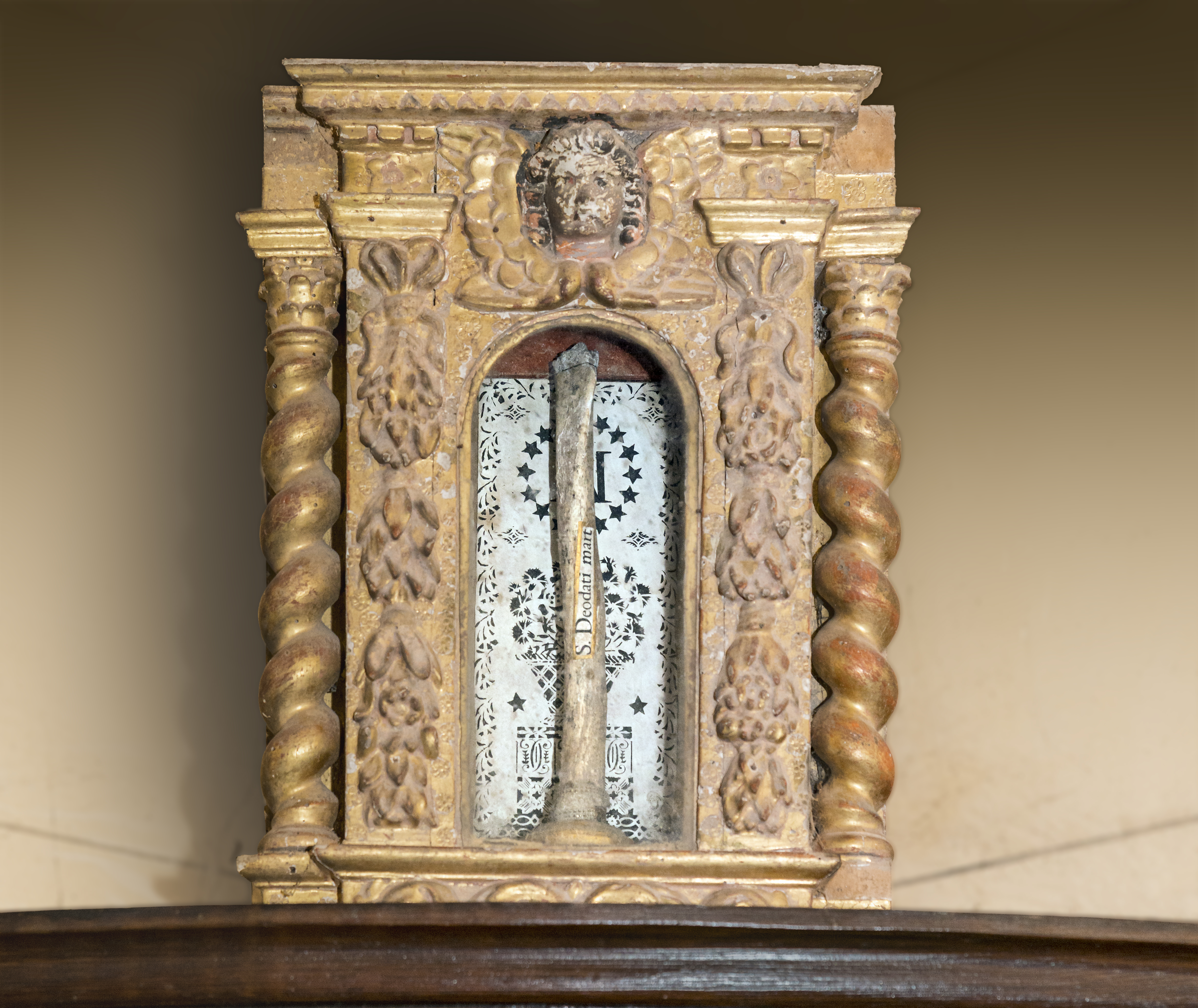 Castelnau-d'Estrétefonds. Église Saint-Martin. Reliquary of Deodatus of Nevers. Constructed like a small tabernacle, at the door replaced by a blue glass, the background behind the relic is made up of a canivet the set dates from the 17th century. Dimensions : 41x28cm.